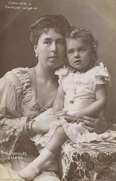 Princess Alexandra of Edinburgh and Saxe-Coburg and Gotha ("Sandra") with her daughter Princess Irma of Hohenlohe-Langenburg